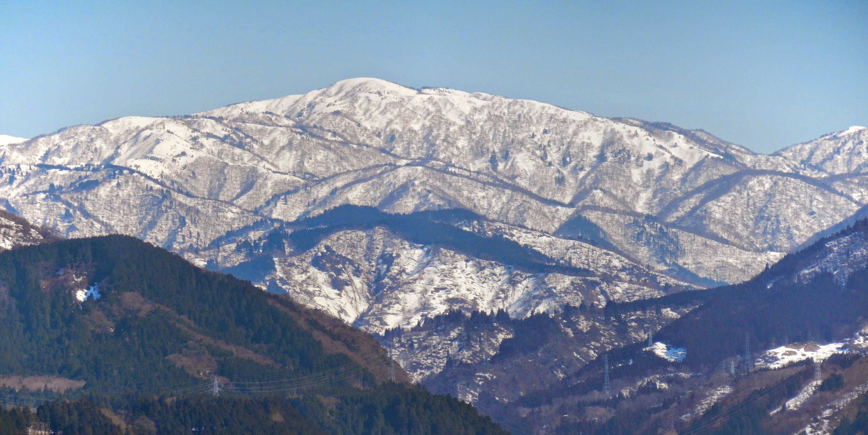 Mount Hachibuse as seen from the southeast in Toyama, Toyama Prefecture, Japan.